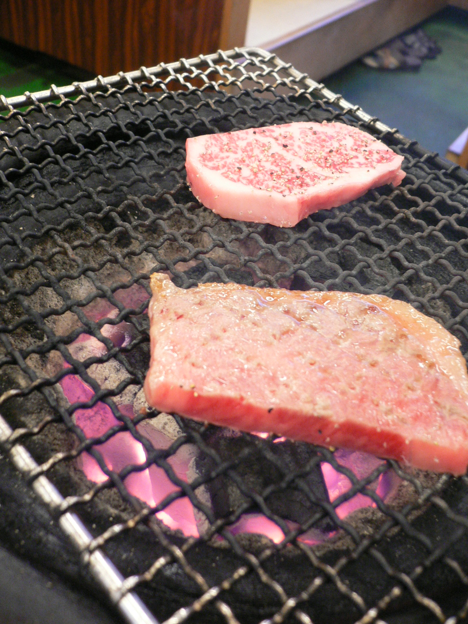 Matsusaka beef being cooked as Yakiniku. Photo taken at "Isshobin" in Matsusaka, Mie, Japan.